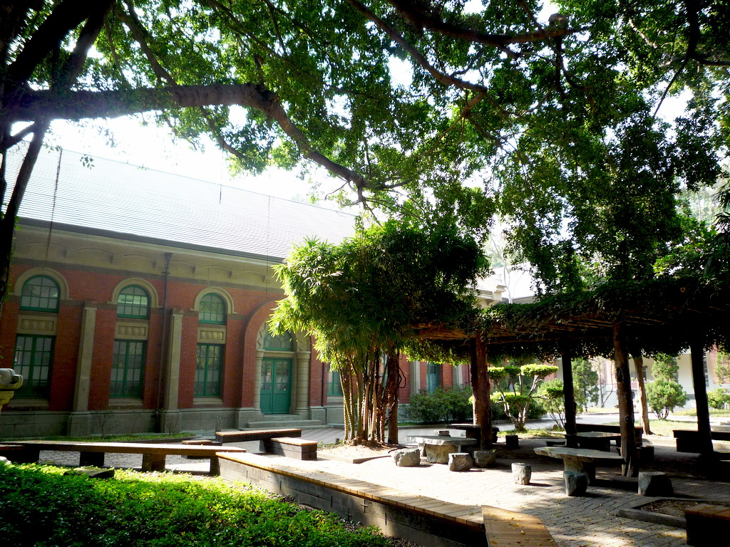 Small Assembly Hall of TNFSH